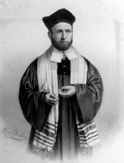 Rabbi Julius Landsberger of the liberal synagogue of Darmstadt (Germany). 1810-1890.